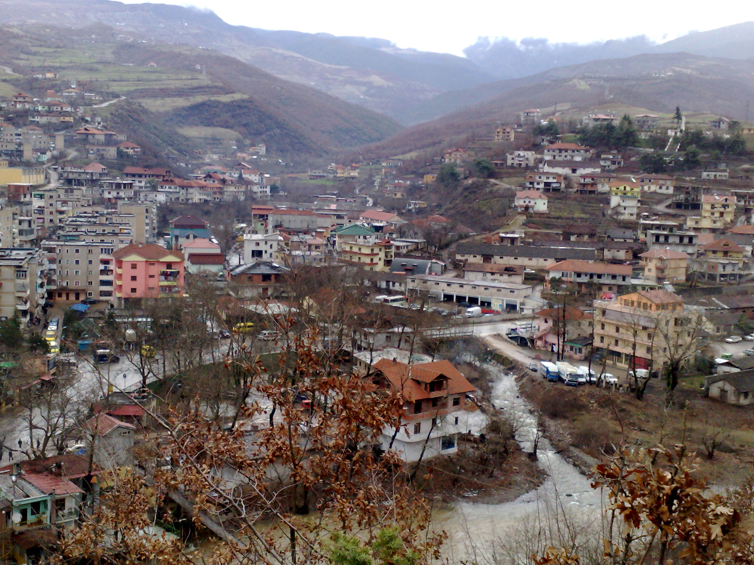 Librazhd town in Albania looking east